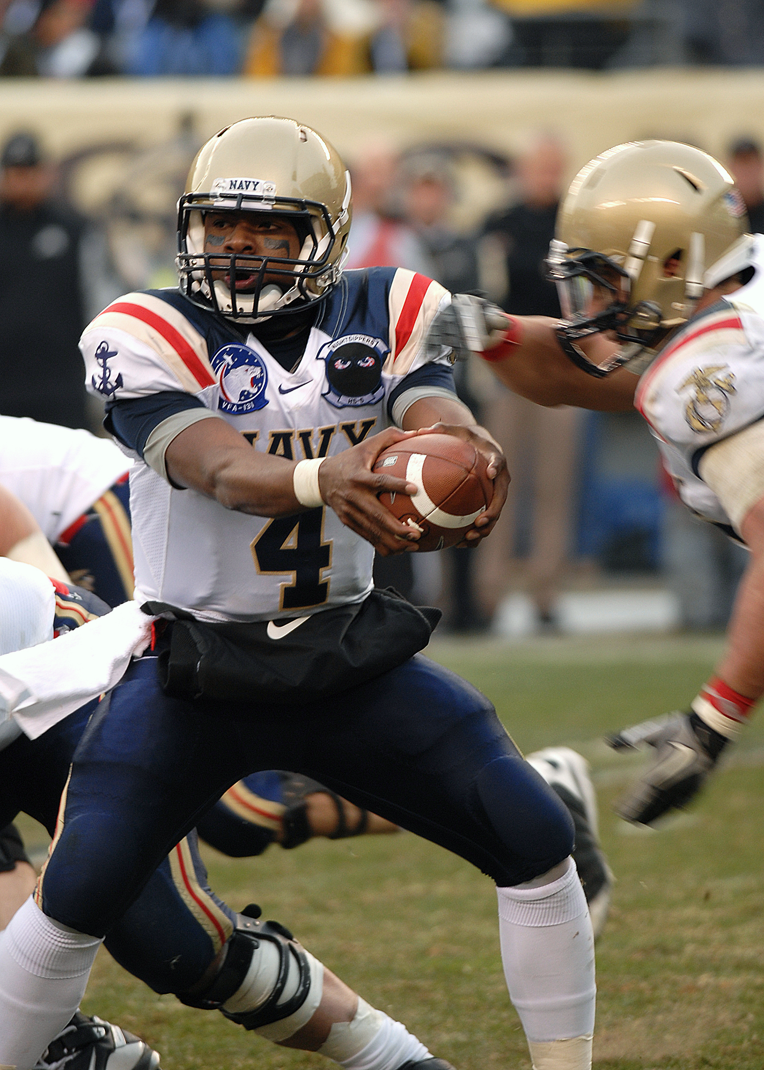 PHILADELPHIA (Dec. 11, 2010) U.S. Naval Academy quarterback Ricky Dobbs (#4) fakes a handoff during the first quarter of the 111th annual Army-Navy football game at Lincoln Financial Field. The Midshipmen defeated the Golden Knights 31-17. (U.S. Navy photo by Mass Communication Specialist 1st Class Chad Runge/Released)